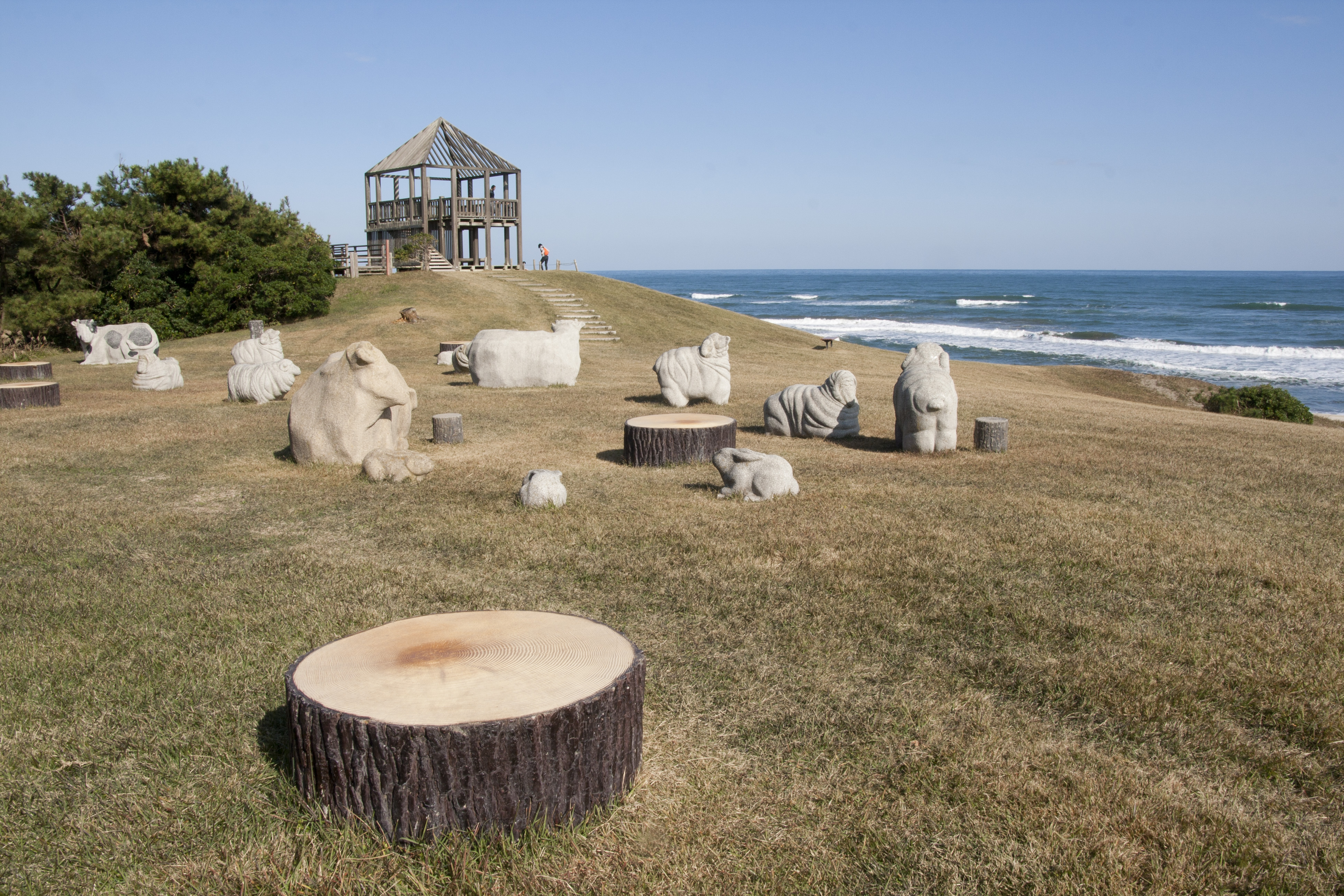 Otake Coast, Hokota City, Ibaraki Prefecture, Japan.